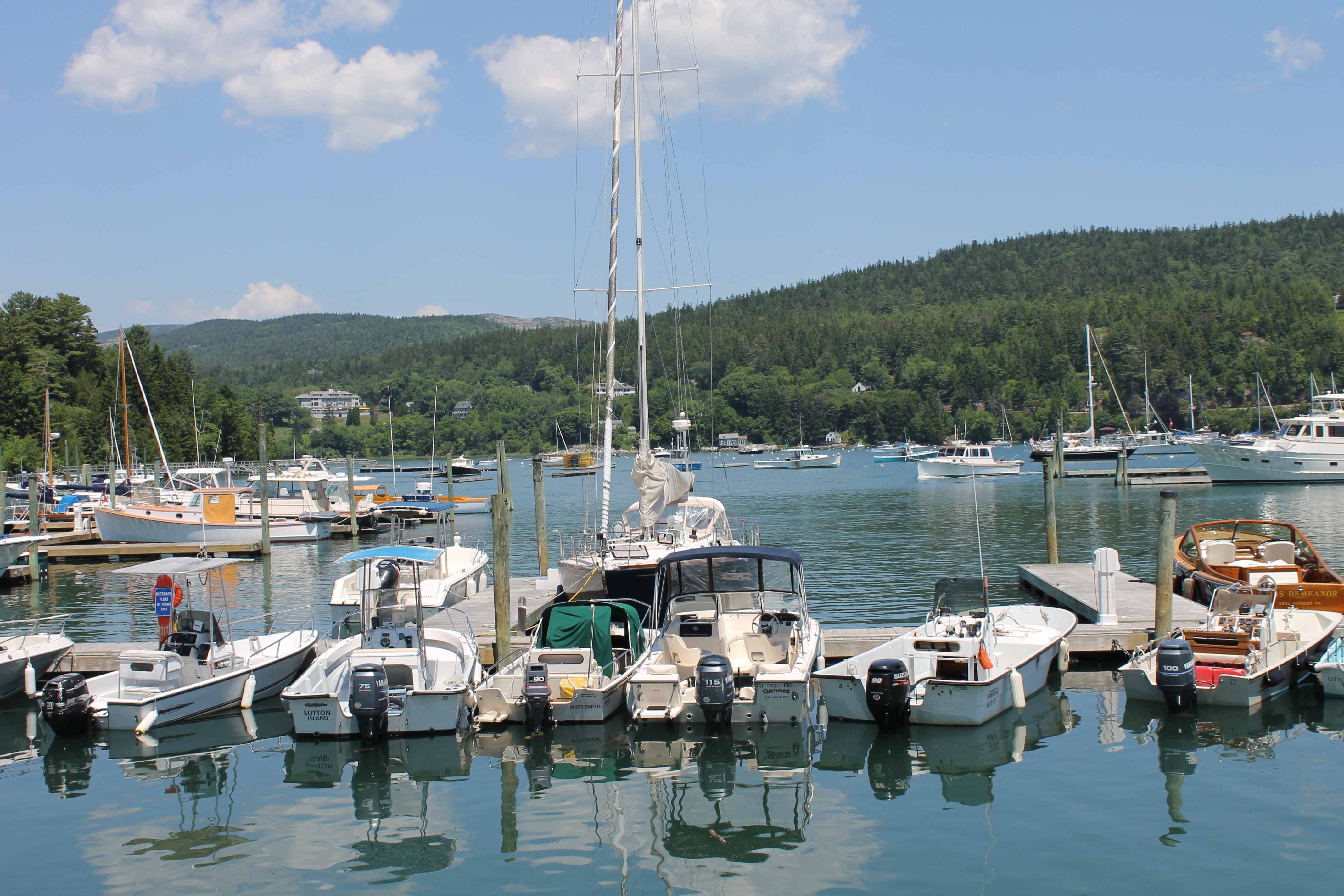 I took photo with Canon camera of boats docked at Northeast Harbor, ME.